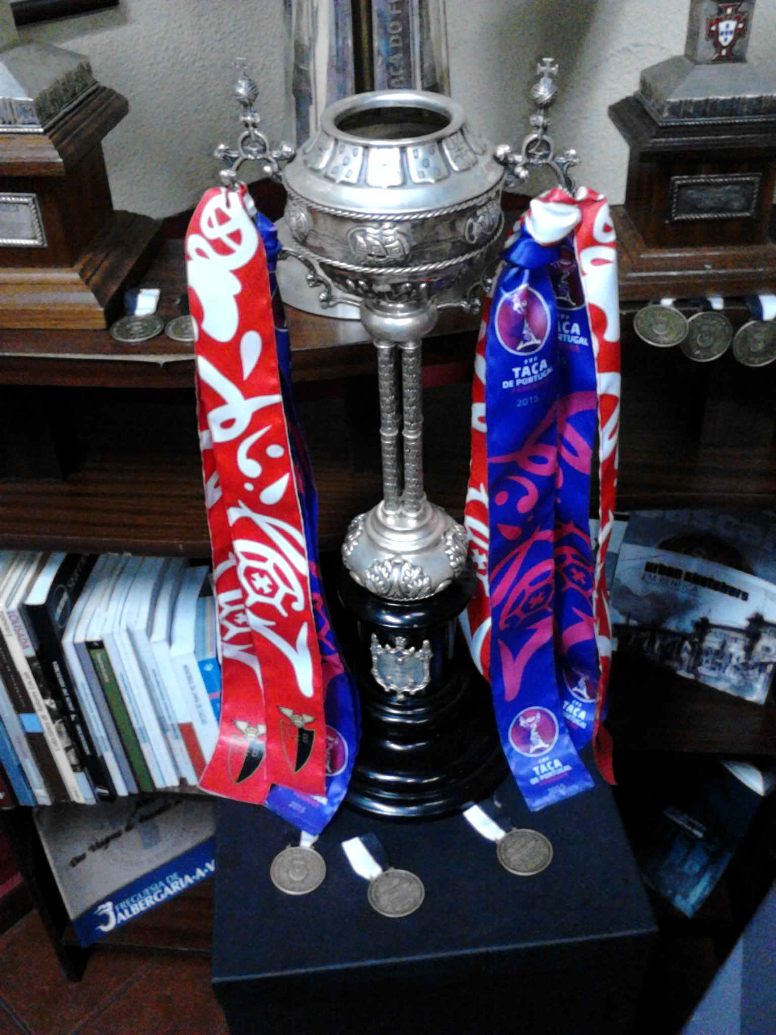 The women's Portuguese Cup. Exactly the trophy design and size as the men receive